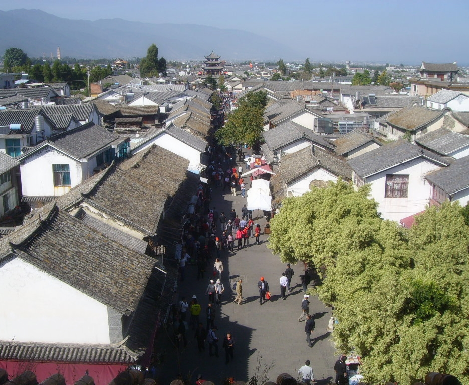 The old town of Dali, Yunnan, China. The three pagodas of Chong Sheng Temple and Cangshan Mountain in background.